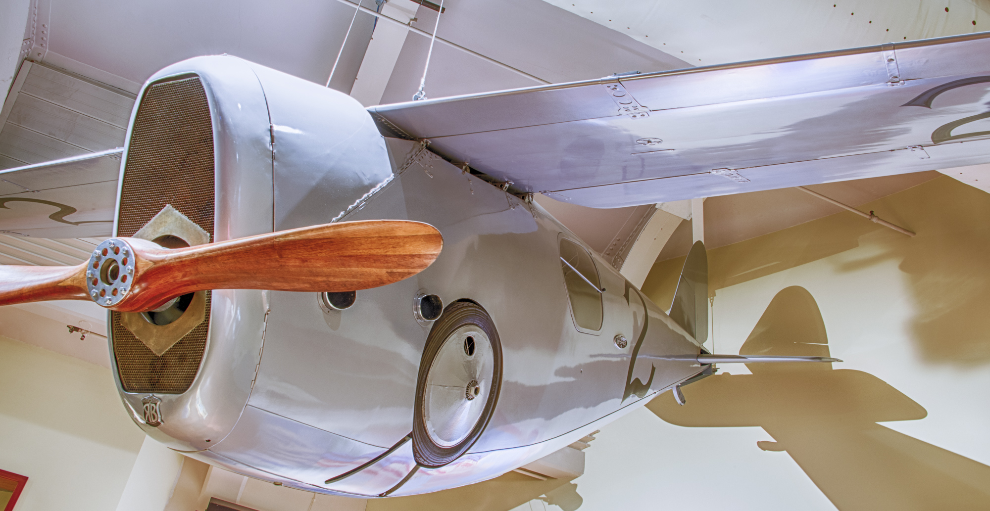 The Dayton-Wright Racer (also known as the Dayton-Wright RB-1) is 1920 racing aircraft that included advanced features for the time.